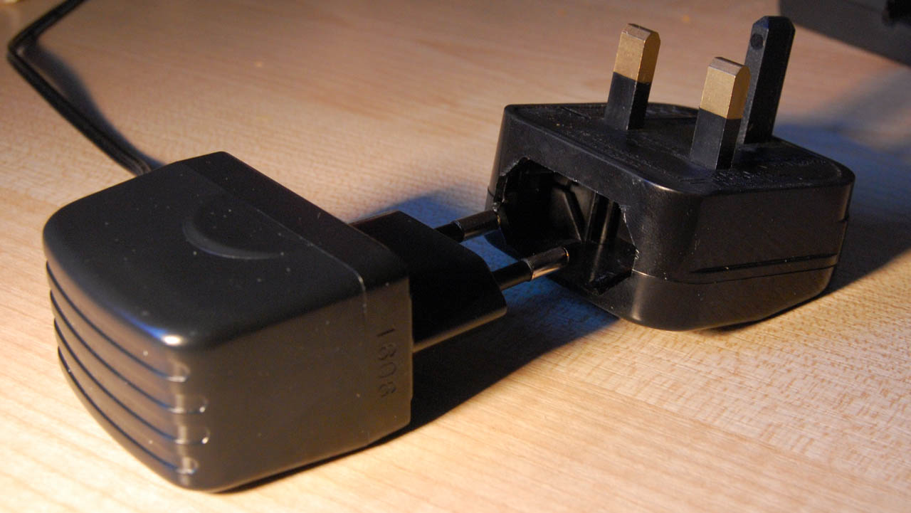 Image of EuroPlug with BS 1363 fused adapter. Own work.